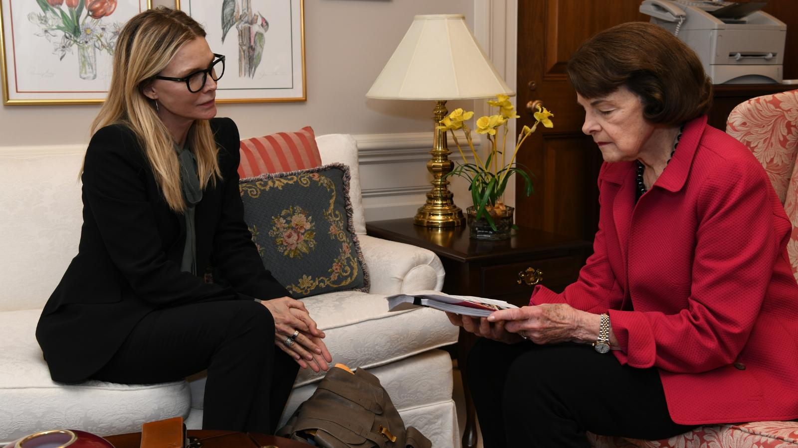 Thank you Michelle Pfeiffer for supporting the Personal Care Product Safety Act. My bill with @SenatorCollins would modernize the regulation of personal care products to give consumers confidence that the products they use are safe